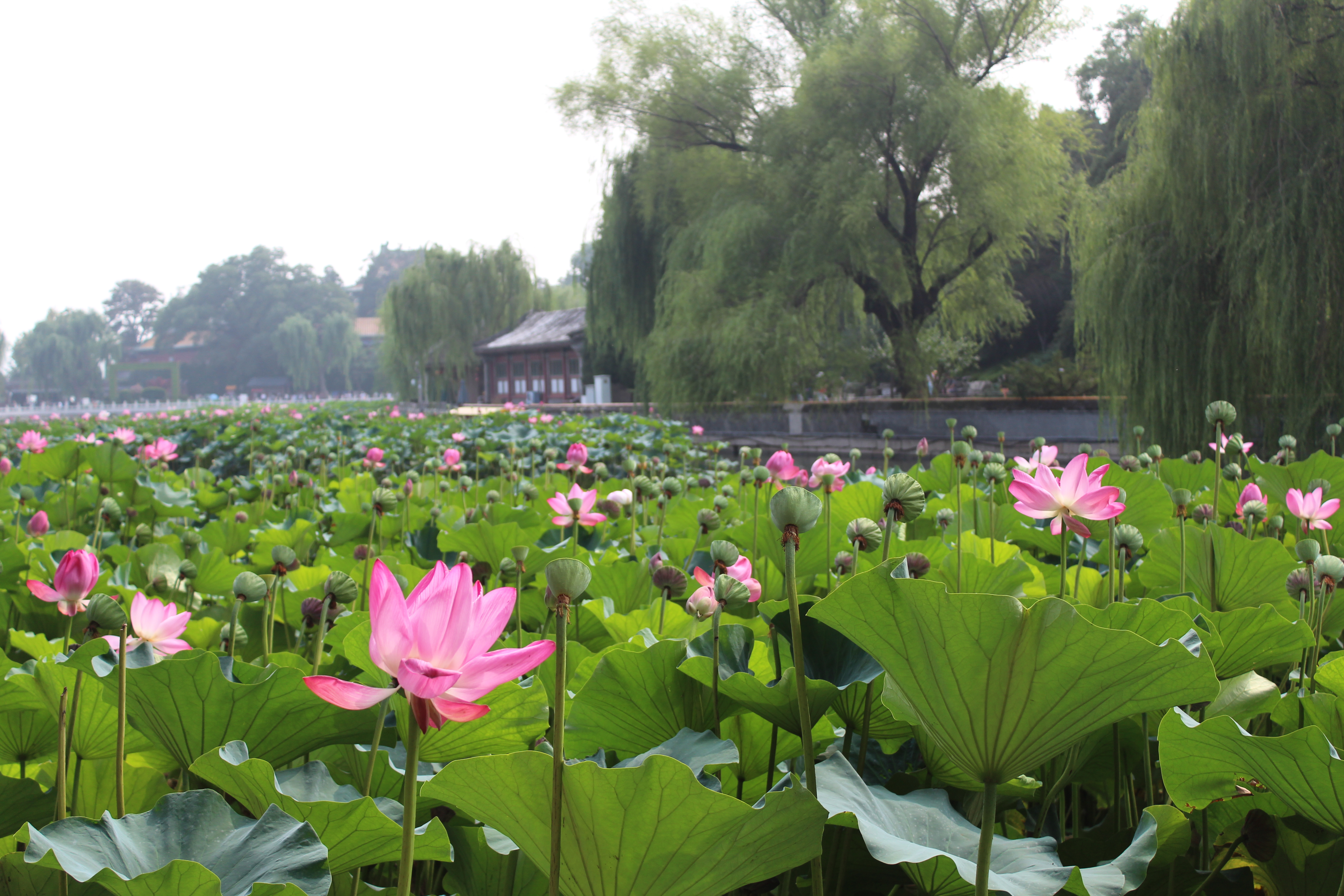 Beijing, China. Beihai Park.